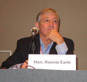 Former Travis County DA Ronnie Earle speaks at a panel on ethics and government at Netroots Nation in Austin, Texas in July, 2008.